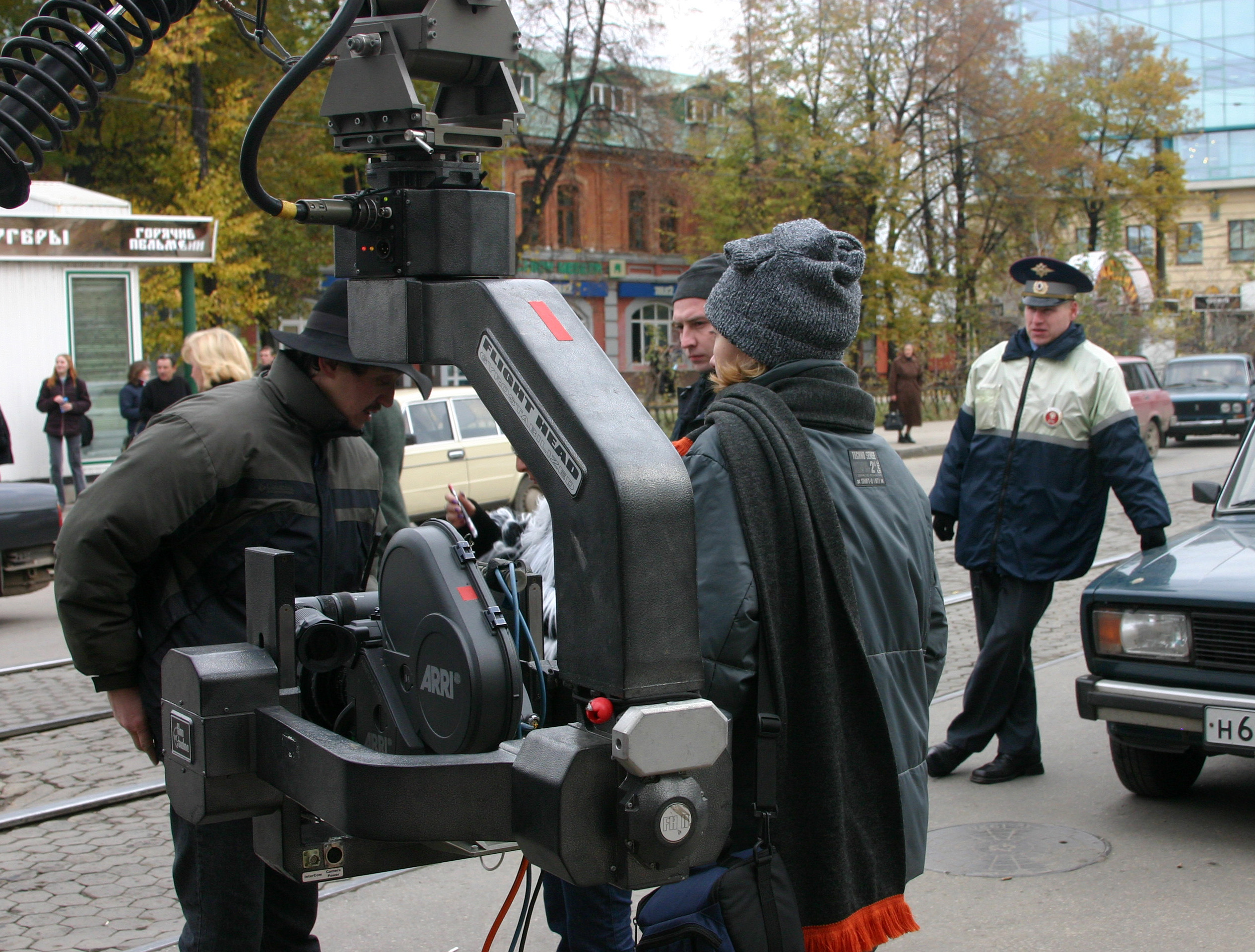 Movie camera Arri, attached to the gyroscopic stabilised Pan & Tilt head "Flight Head" for car motion filming.